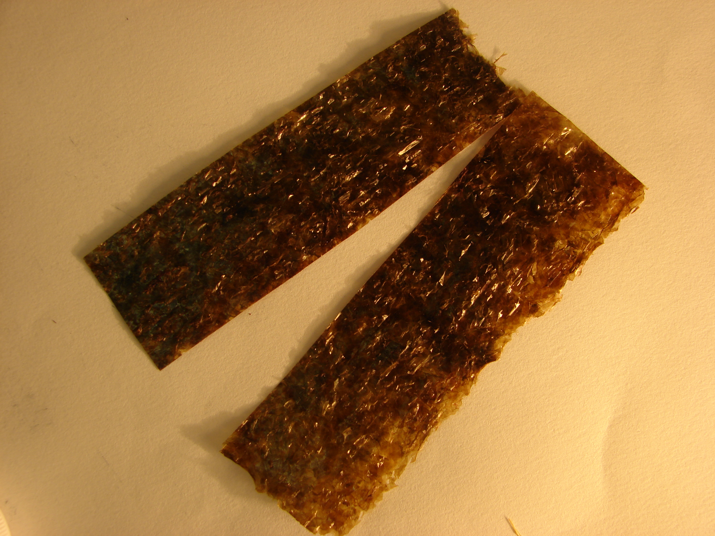 Nori, Porphyra tenera